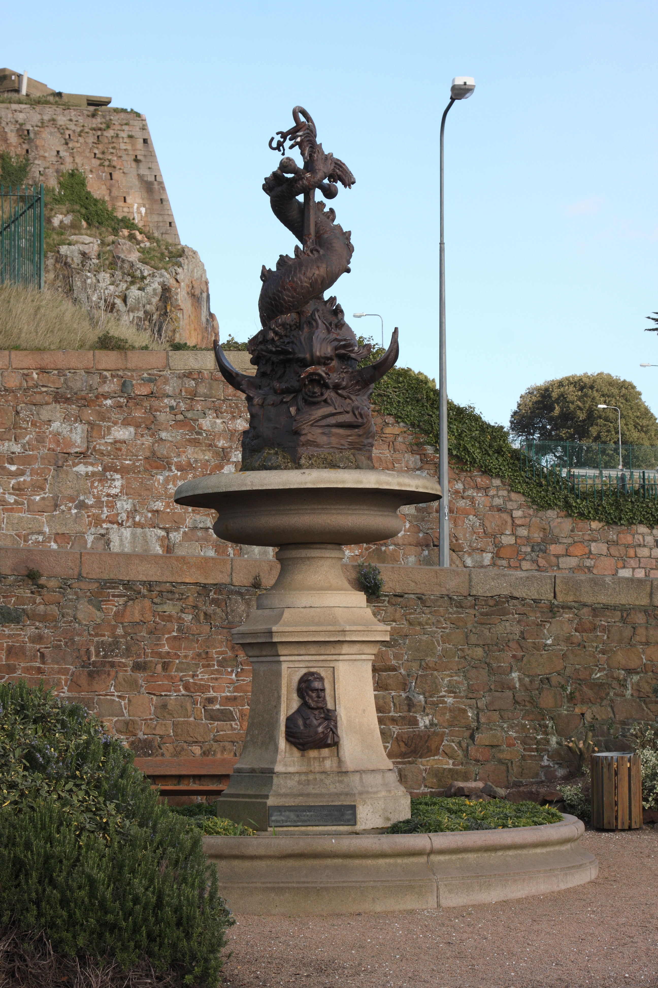 Westaway Monument - a memorial to John N. Westaway, consisting of a fountain (now not functioning) incorporating an anchor and dolphin sculpted by Pierre Alfred Robinet. Located at La Collette, St. Helier, Jersey. .